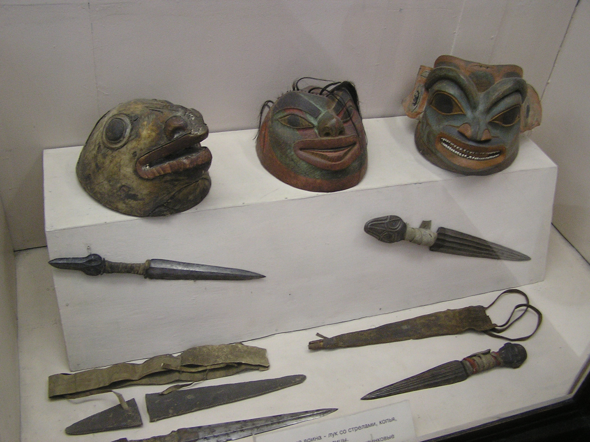 Tinglit carved wooden helmets and copper daggers from Alaska, either late 18th century or early 19th century